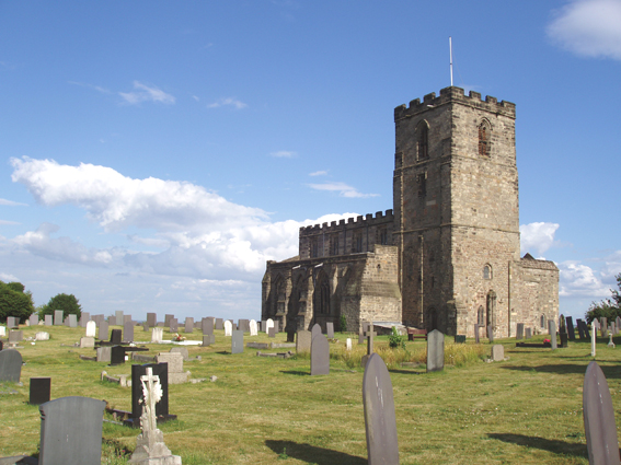 The Church of St Mary and St Hardulph on the summit of Breedon Hill, Breedon on the Hill, Leicestershire.